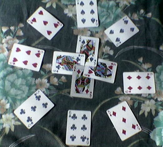 A game of Captive Queens at its earlier stages, if the fives, sixes, and queens are dealt first.